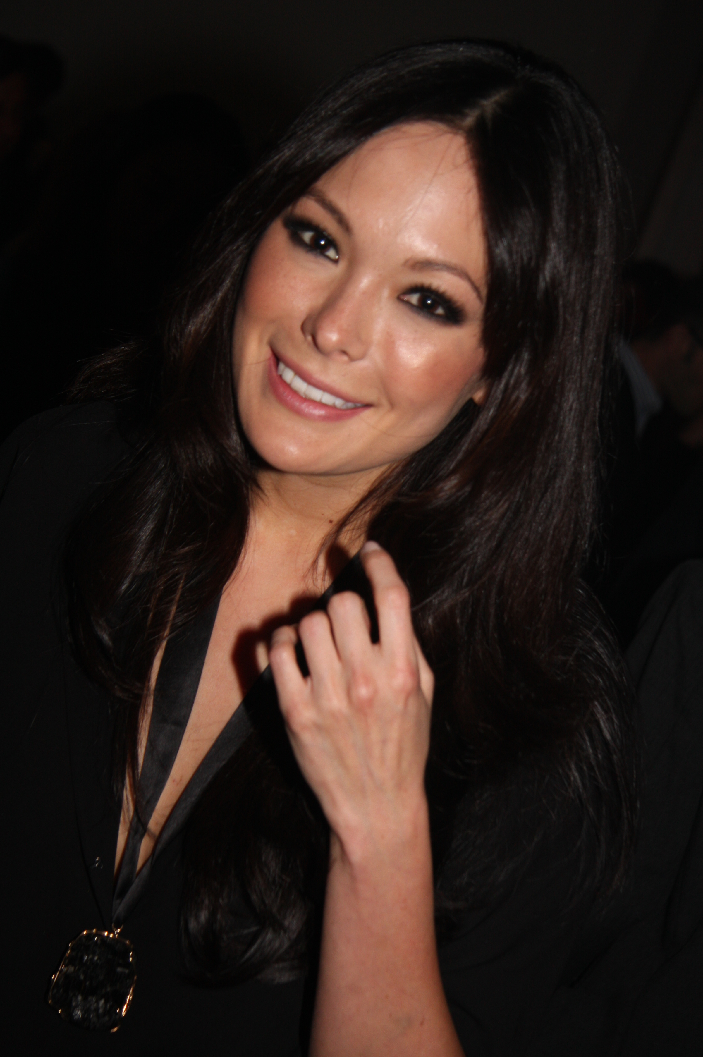 Lindsay Price in June 2009.